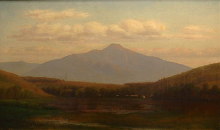 Mt. Mansfield, Vermont — Alfred Ordway; oil on canvas painting; 1870.